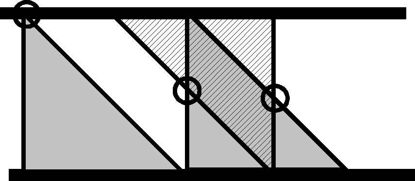 принцип работы мезолябии